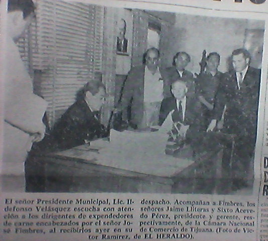 Fragmento de la primera plana de "El Heraldo Baja California" del 7 de febrero de 1963 que muestra una fotografía y una nota a pie en la cual se indica que el Lic. Ildefonso Velásquez, Presidente Municipal de Tijuana, recibe a expendedores de carnes, encabezados por José Fimbres, acompañado de Jaime Lliteras y Sixto Acevedo Pérez, Presidente y Gerente de la Cámara Nacional de Comercio de Tijuana. Foto tomada a la primera plana del ejemplar, en el cual se muestra una imagen tomadas por Víctor Ramírez (reportero gráfico), notas y pies de página. El ejemplar del periódico está disponible en la hemeroteca del Archivo Histórico de Tijuana, con domicilio en calle Segunda esquina con Av. Constitución en Tijuana, B.C.